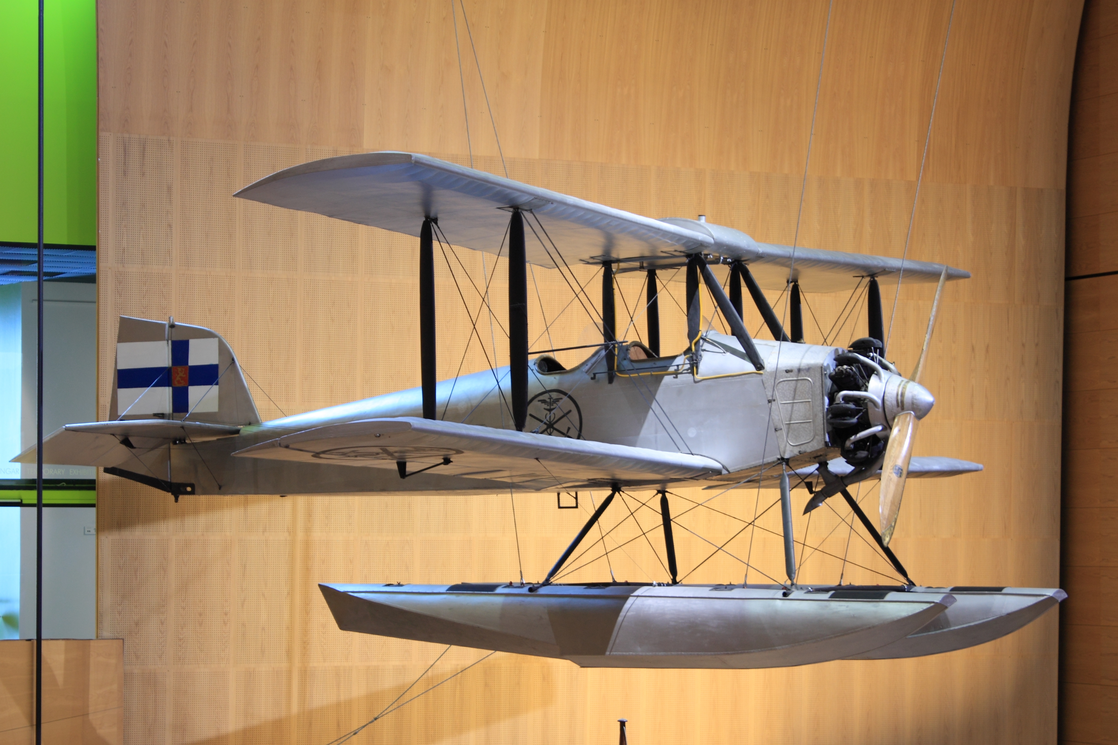 Sääski II LK-1 in Maritime Centre Vellamo in Kotka, Finland. The plane has been used by Finnish Customs and Cost Guard.